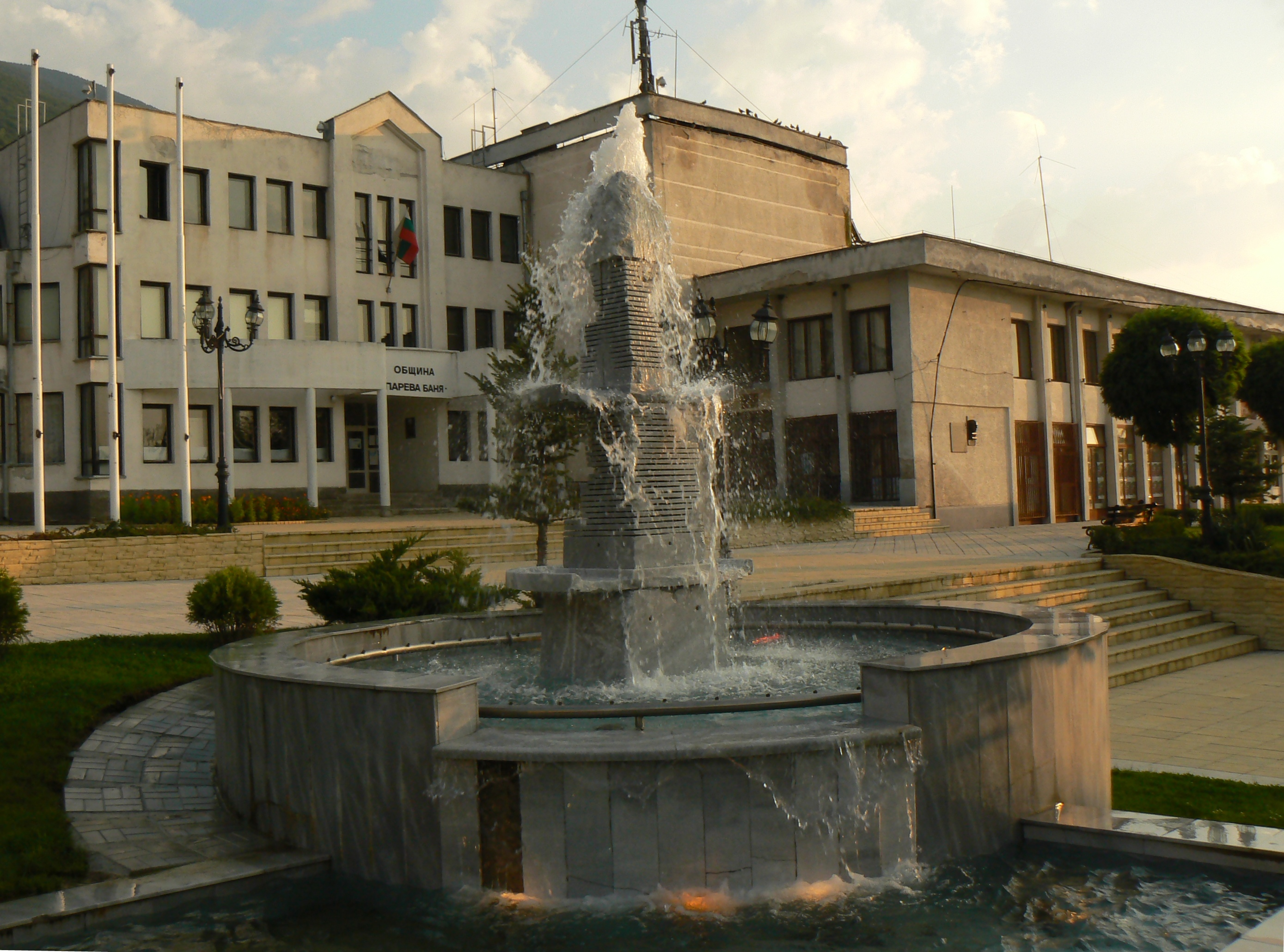 The fountain in front of the municipality hall of Sapareva Banya Municipality. Bulgaria